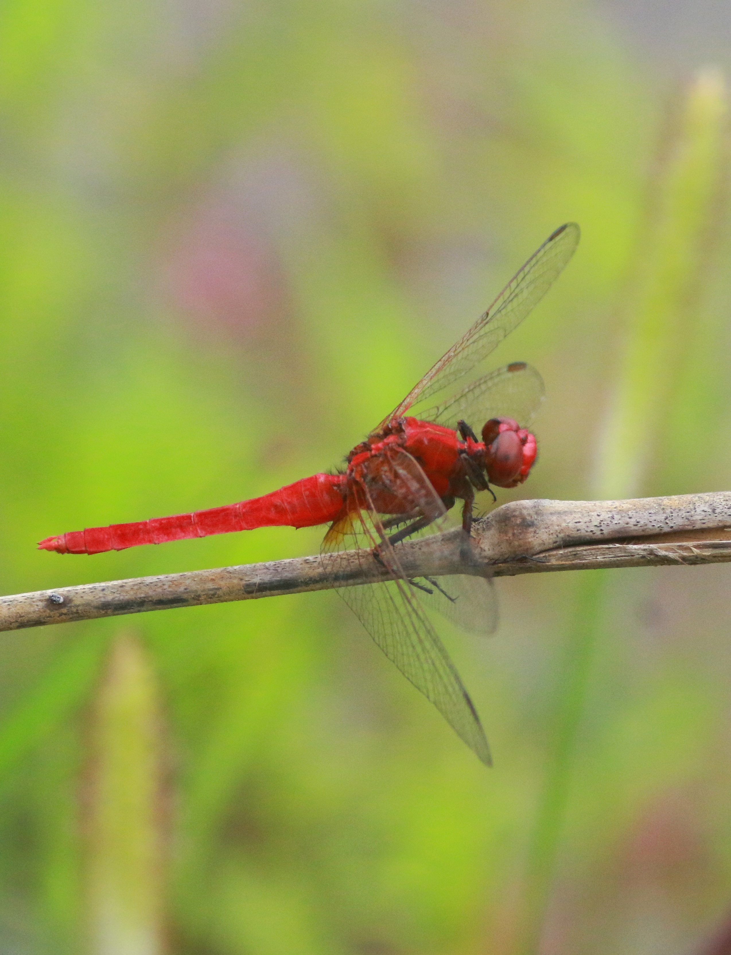 Rhodothemis rufa